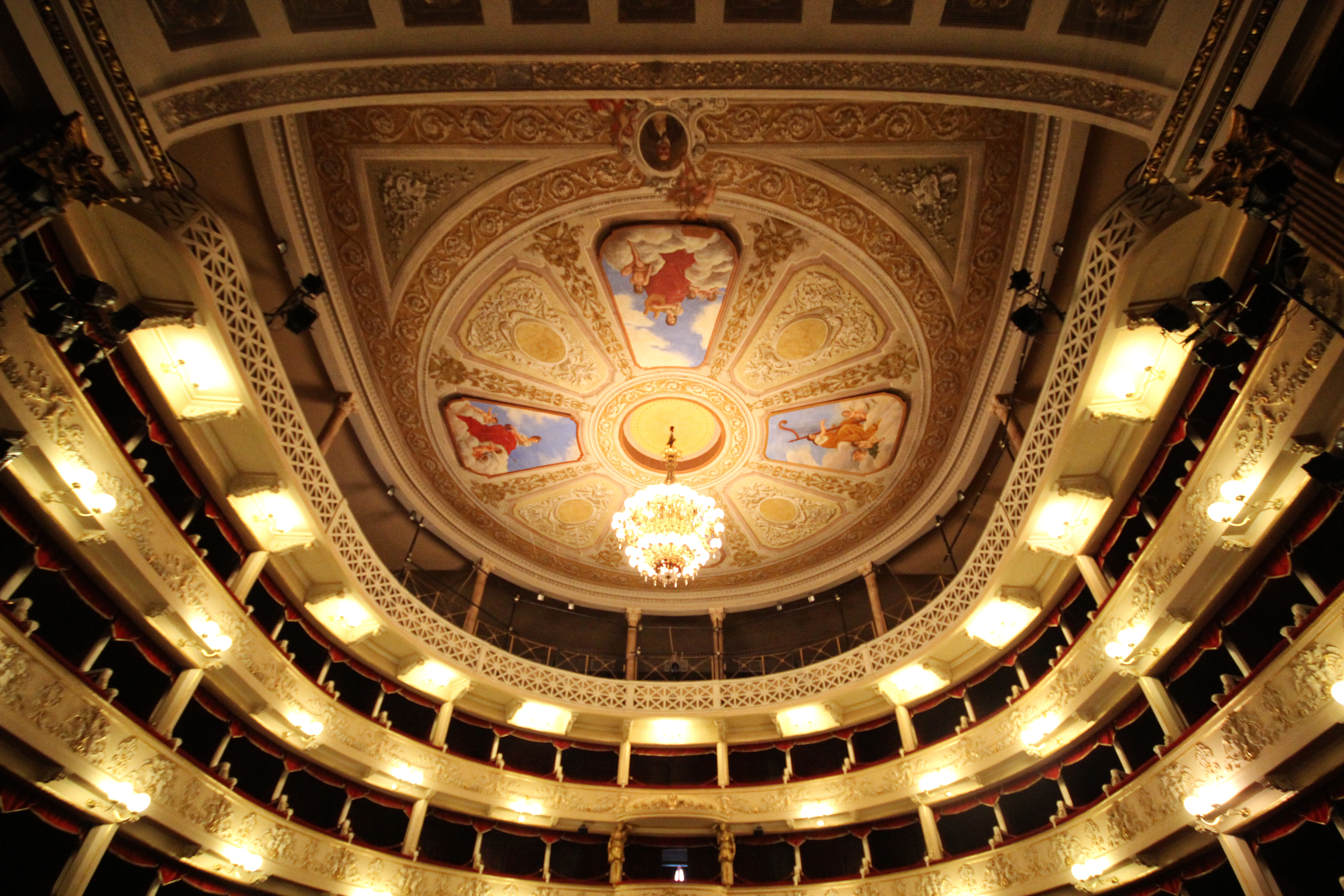 particular of Gustavo Modena theatre This is a photo of a monument which is part of cultural heritage of Italy.